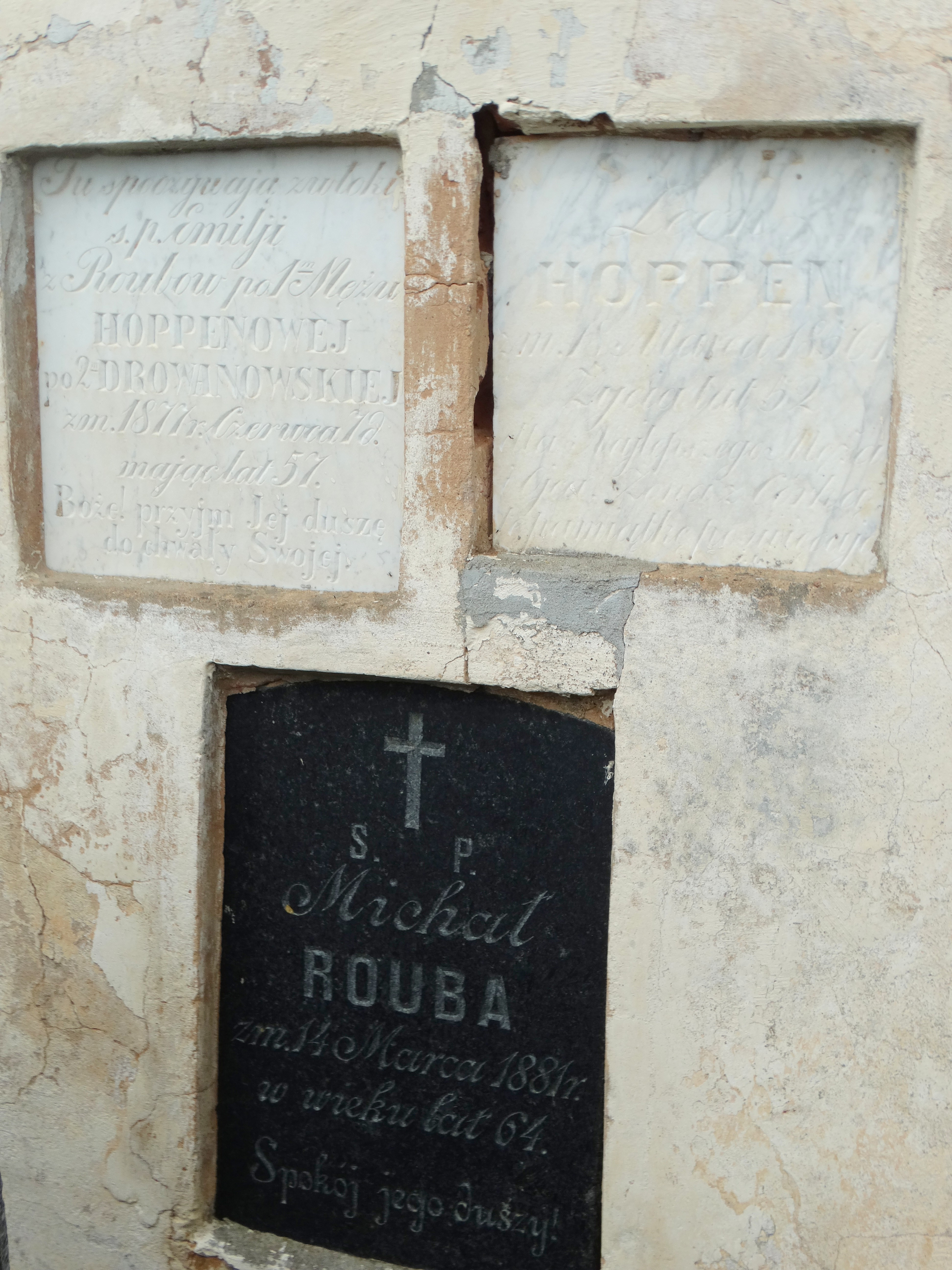 Šėta, cemetery tomb chapel, Kėdainiai district, Lithuania